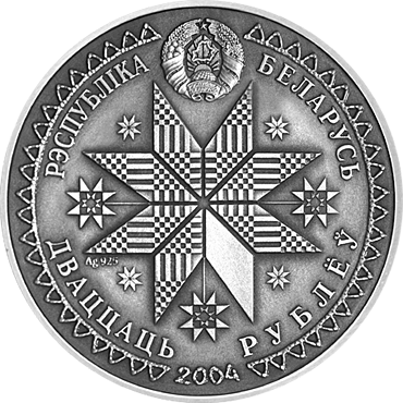 "Kupalle", Silver commemorative coins, denomination: 20 rubles